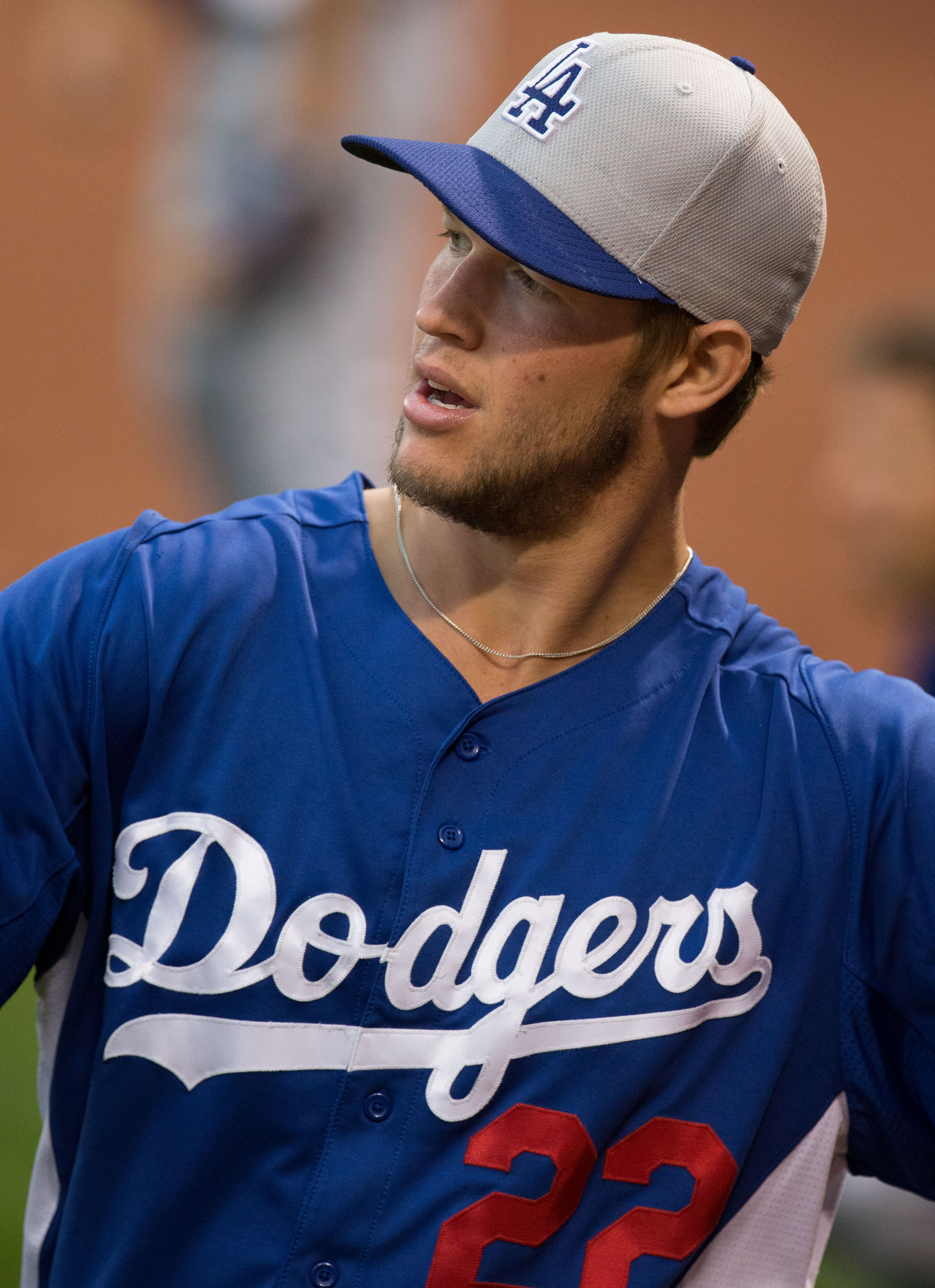 Los Angeles Dodgers at Baltimore Orioles April 19, 2013